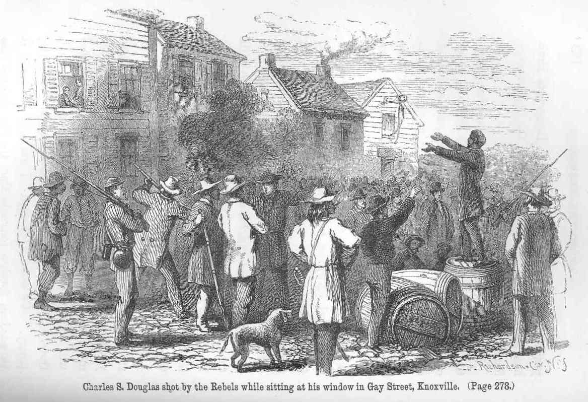 Engraving depicting the shooting of Union supporter Charles S. Douglas by Confederate soldiers at his home on Gay Street in Knoxville, Tennessee, USA at the outbreak of the U.S. Civil War (1861–1865). Douglas had displayed an American flag, and had defended the flag from pro-secessionists. The engraving was published in William "Parson" Brownlow's book, Sketches of the Rise, Progress, and Decline of Secession.